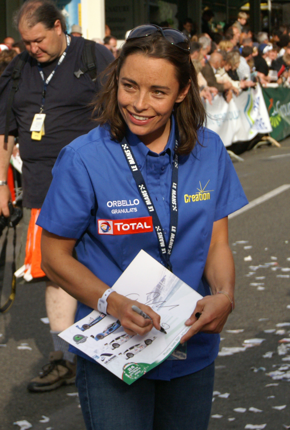 Vanina Ickx, one of the drivers of the Creation CA07 - AIM for Creation Autosportif Drivers' Parade. Le Mans 2009